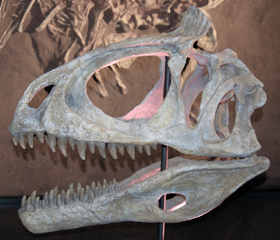 Photo: cast of a Cryolophosaurus ellioti skull at the Australian Museum, Sydney.